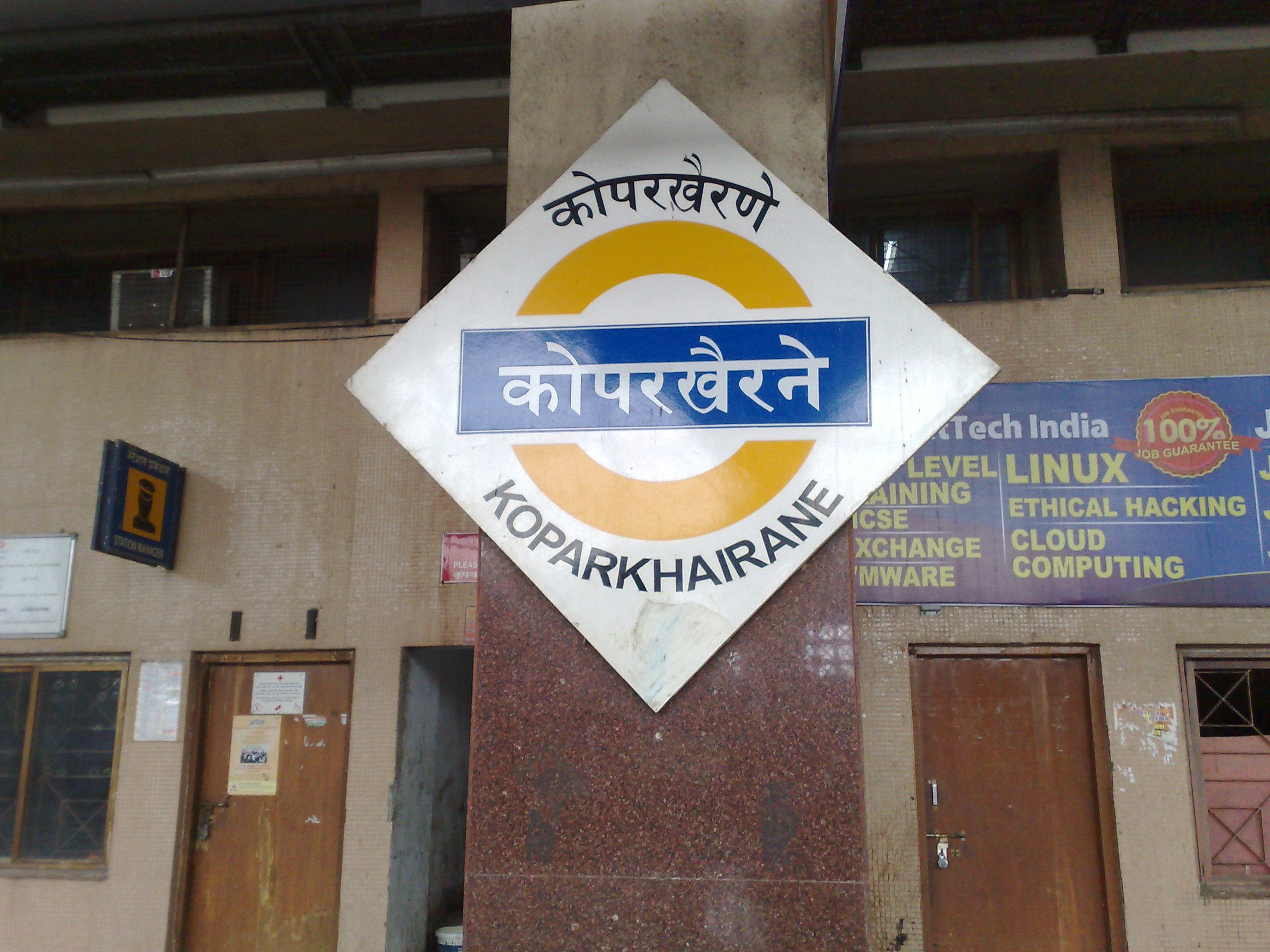 platformboard - kopar khairane